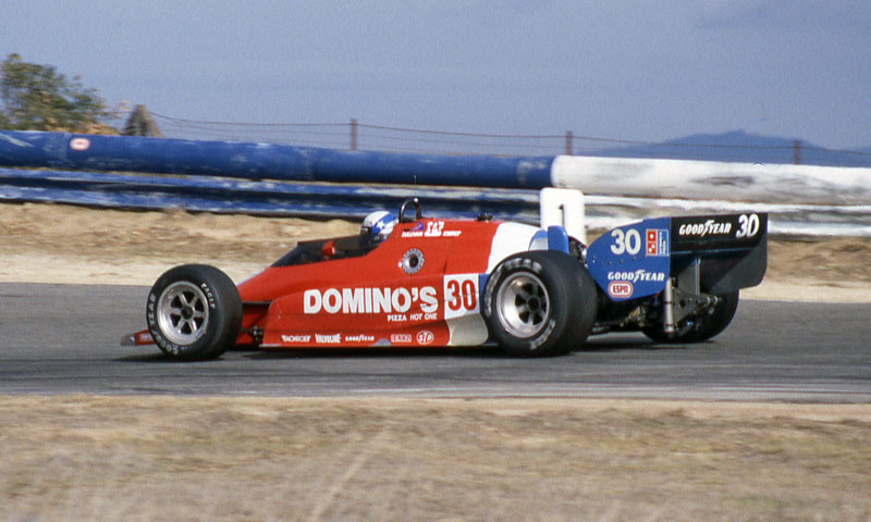 Danny Sullivan drove a Lola T800-Cosworth to a ninth-place finish at the 1984 Laguna Seca CART IndyCar race.